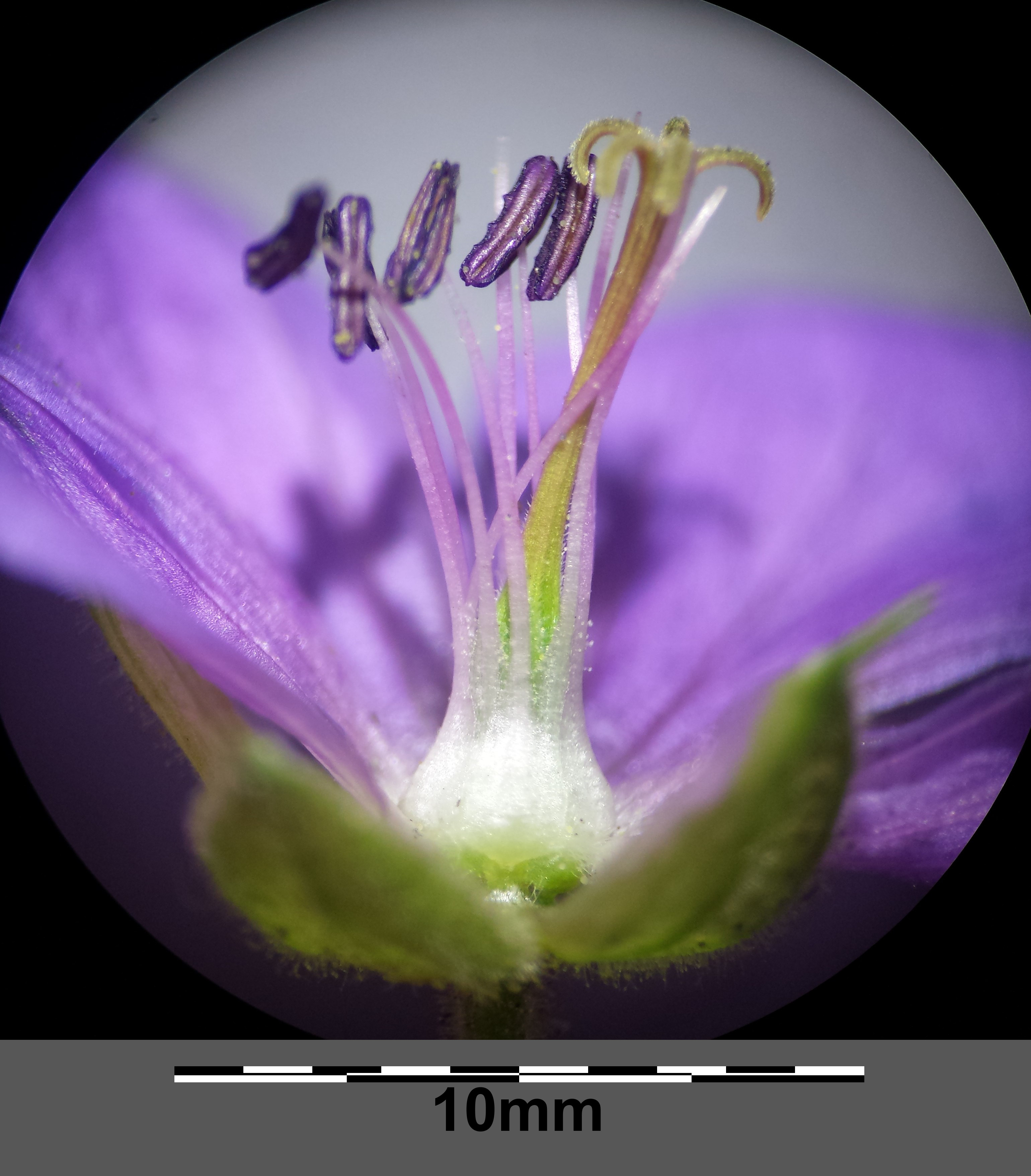 Stamina and ovary Taxonym: Geranium pratense ss Fischer et al. EfÖLS 2008 ISBN 978-3-85474-187-9 Location: near Niederhollabrunn, district Korneuburg, Lower Austria - ca. 250 m a.s.l. Habitat: wayside